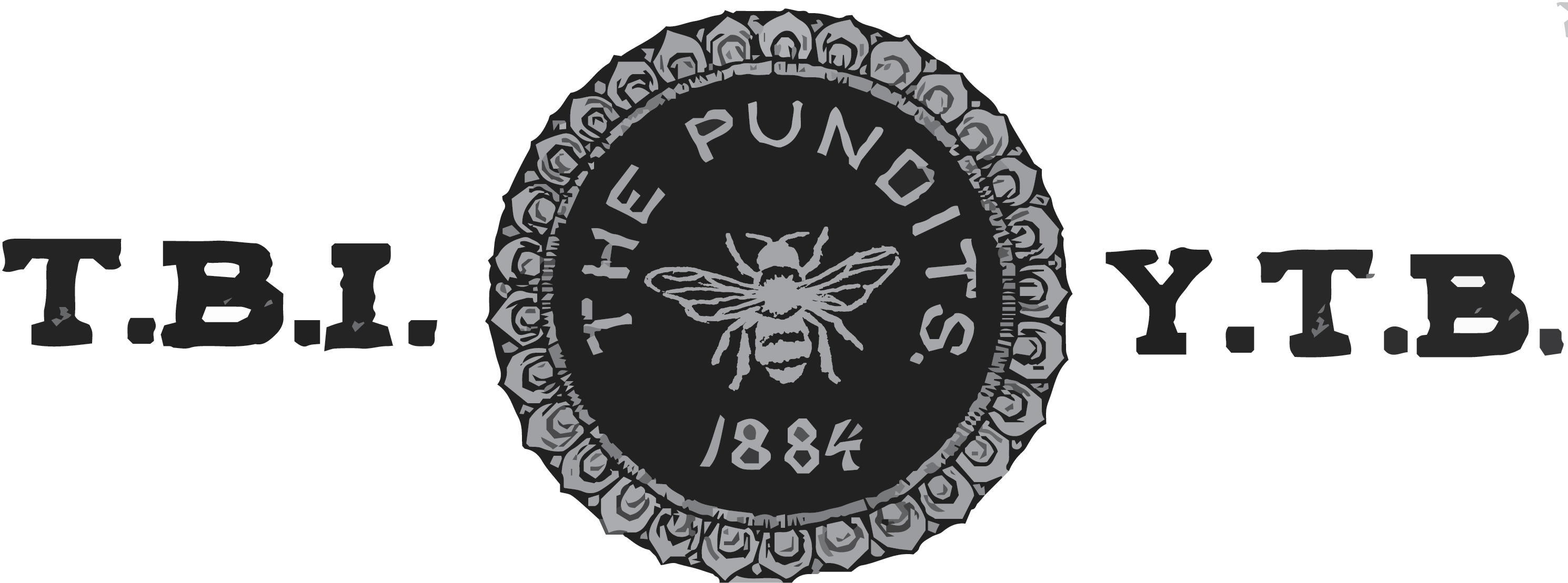 Full logo for The Pundits updated in 2019